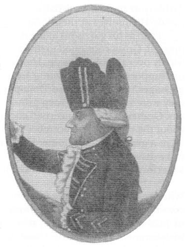 Caricature of Alexander Leslie from William S. Stryker (1898).